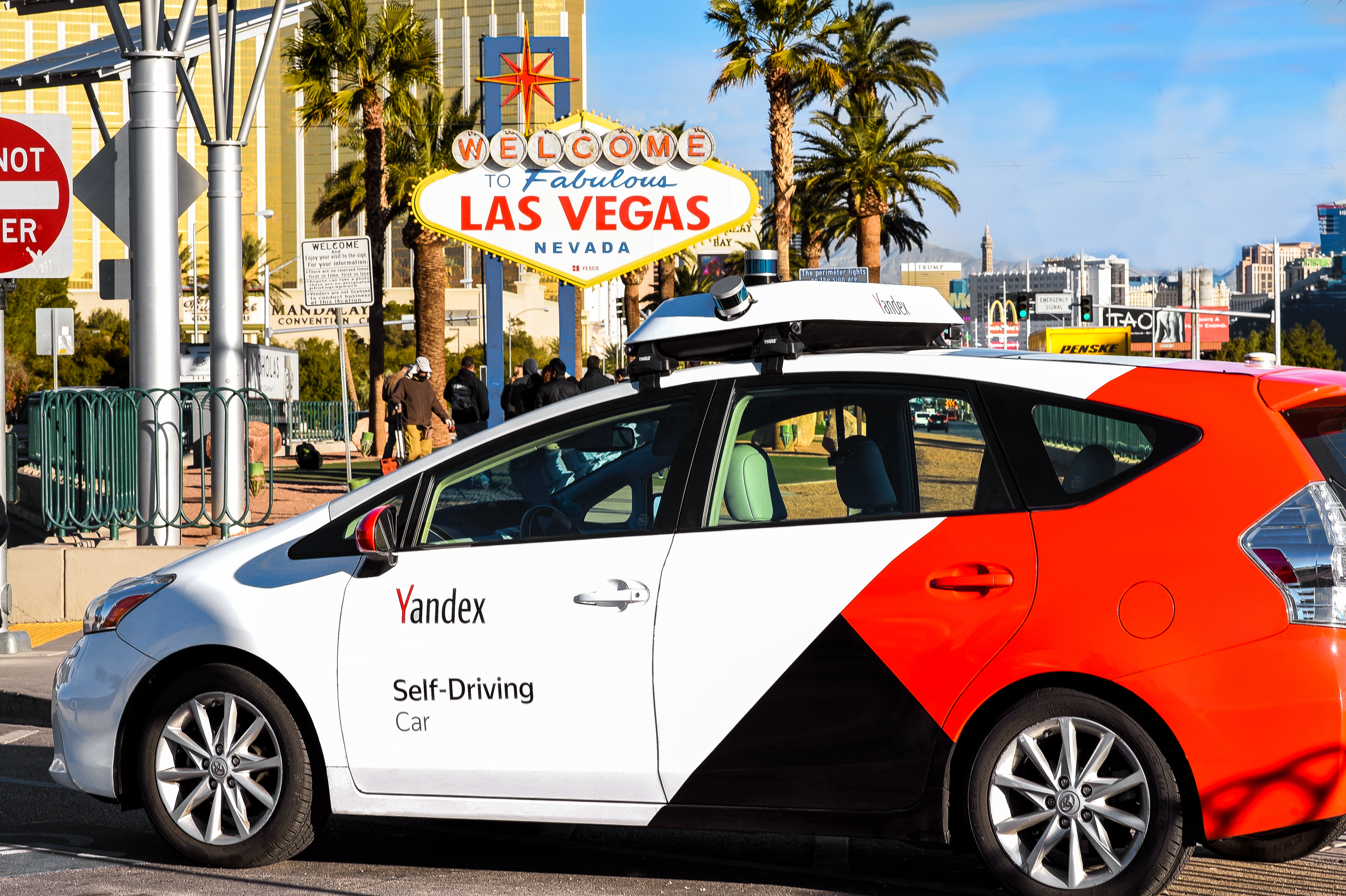 Self-Driving Car Yandex.Taxi. Las-Vegas, Nevada. CES 2019